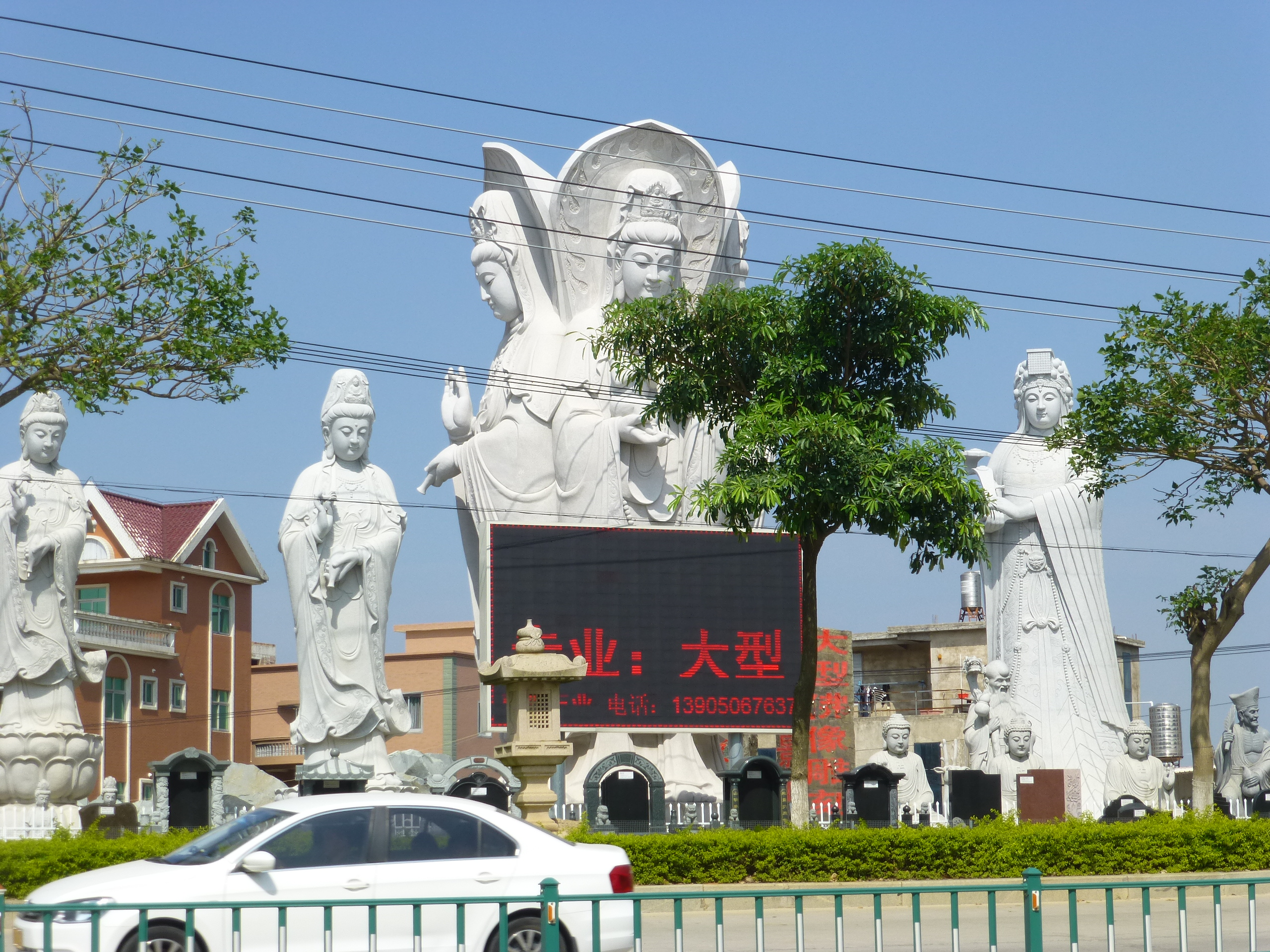 The Huichong Highway (Road X308), connecting downtown Hui'an and Chongwu Town is lined up with sculpture workshops, whose front yards are decorated with their products